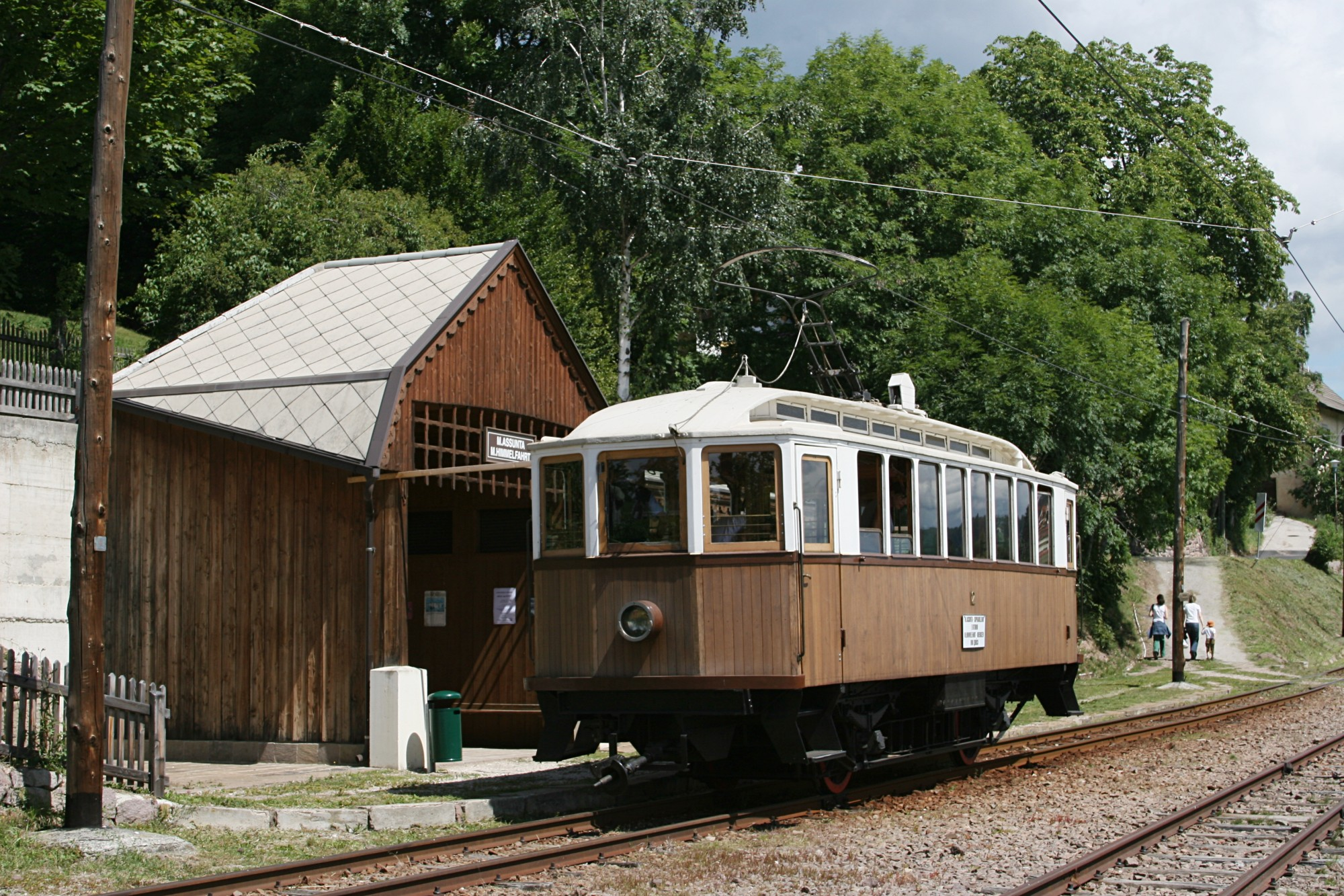 4 wheel railcar 12 of the Rittnerbahn in Maria Himmelfahrt station.